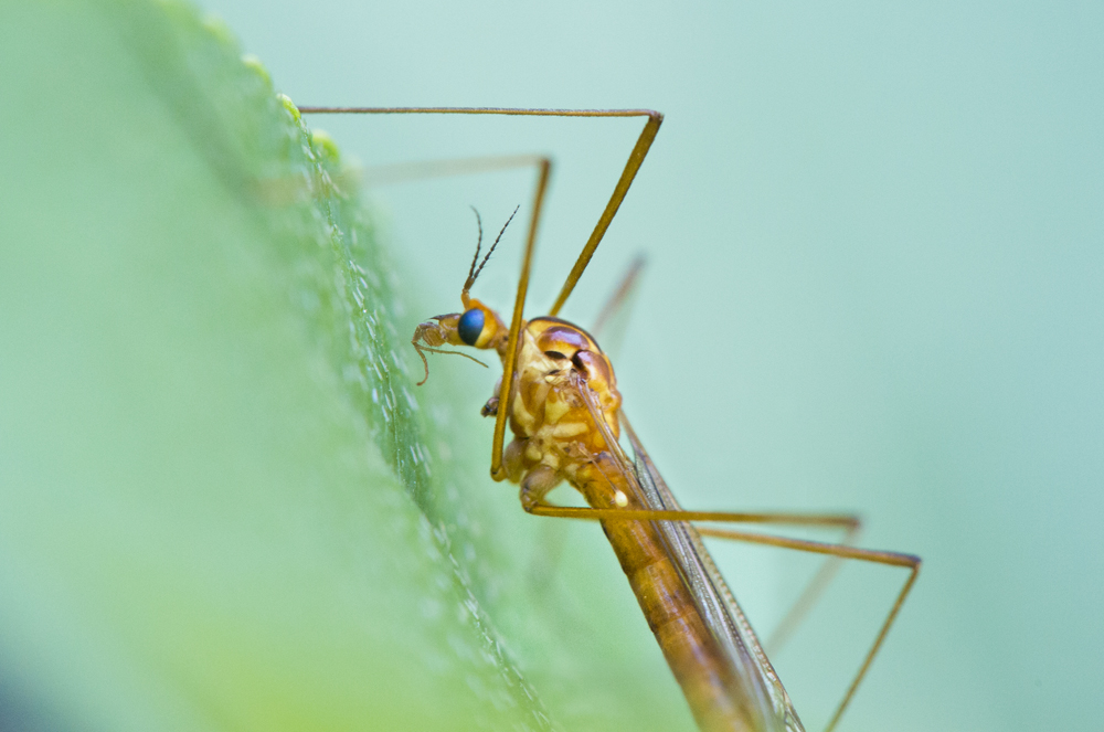 Nephrotoma ferruginea near Creston BC, Canada